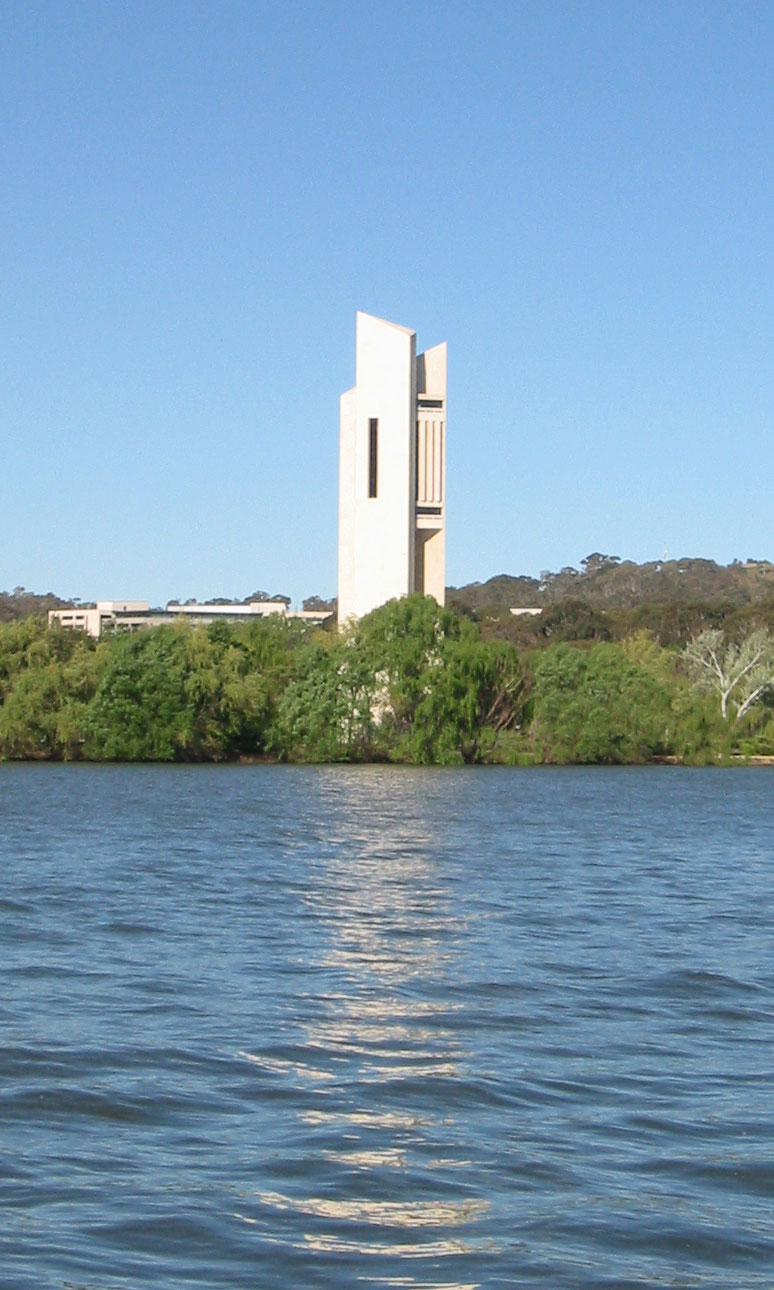 Photo of the National Carillon, Aspen Island, Lake Burley Griffin, Canberra, Australia - taken by John Conway 2004 and released under the GFDL